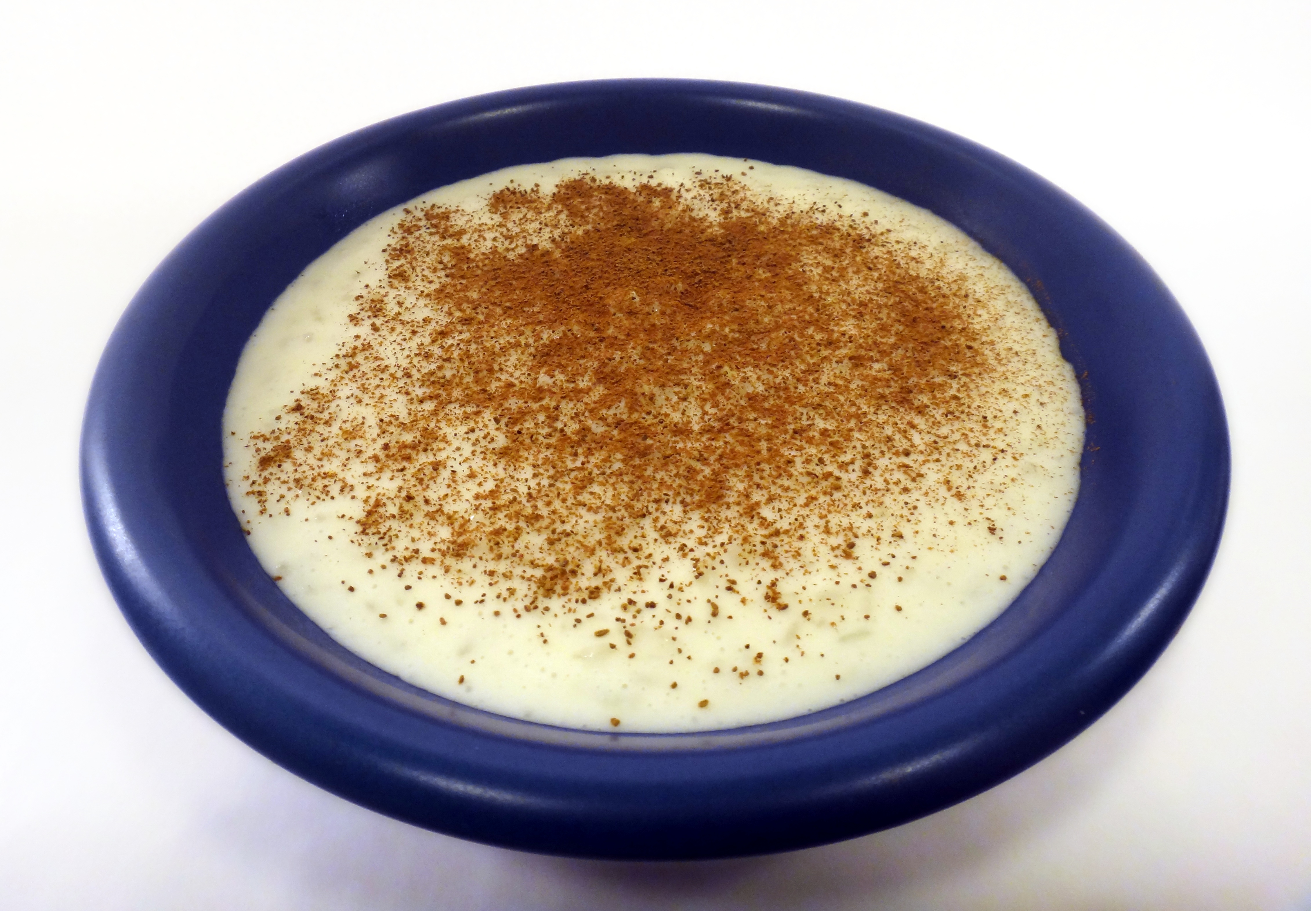 Swedish rice pudding with cinnamon.